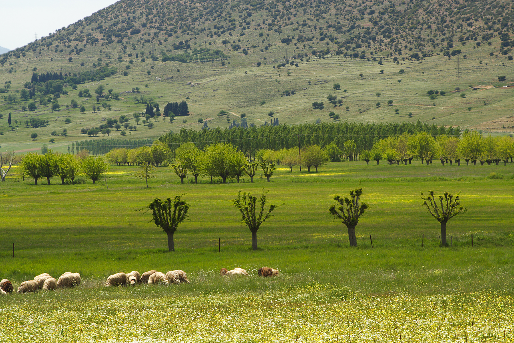 Southend of the closed Karst basin „Nestani-Saga-Polje“ in the Arcadien highland, Peloponnese Greece. In this part of the basin, „Argon Pedion“ (Greek for “untilled plain”, see also „Description of Greece“ by the ancient author Pausanias, 110-180 AD) sheep- and goat keeping dominate. Extraordinary winter rains flood this basin section even today, retarding any possibility of cultivation. The mass of water, which may form a temporary lake can only be drained subsurface by one single ponor, (Greek: καταβόθρα). The section of the slope immediately above the plain resembles abandoned terraced cultivation. Such active cultivation is recorded for the northern part. Animal path destruction is also (partly) visible but too limited to contradict the slopes character.